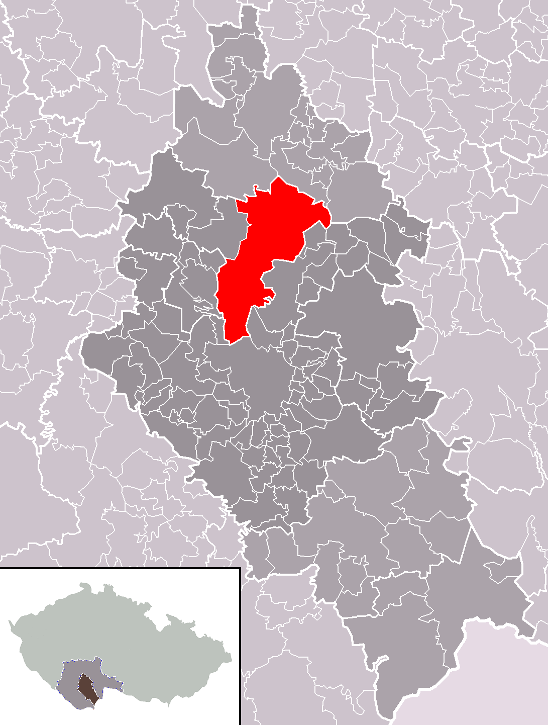 Location of Hluboká nad Vltavou town within České Budějovice District and administrative area of České Budějovice as a Municipality with Extended Competence.